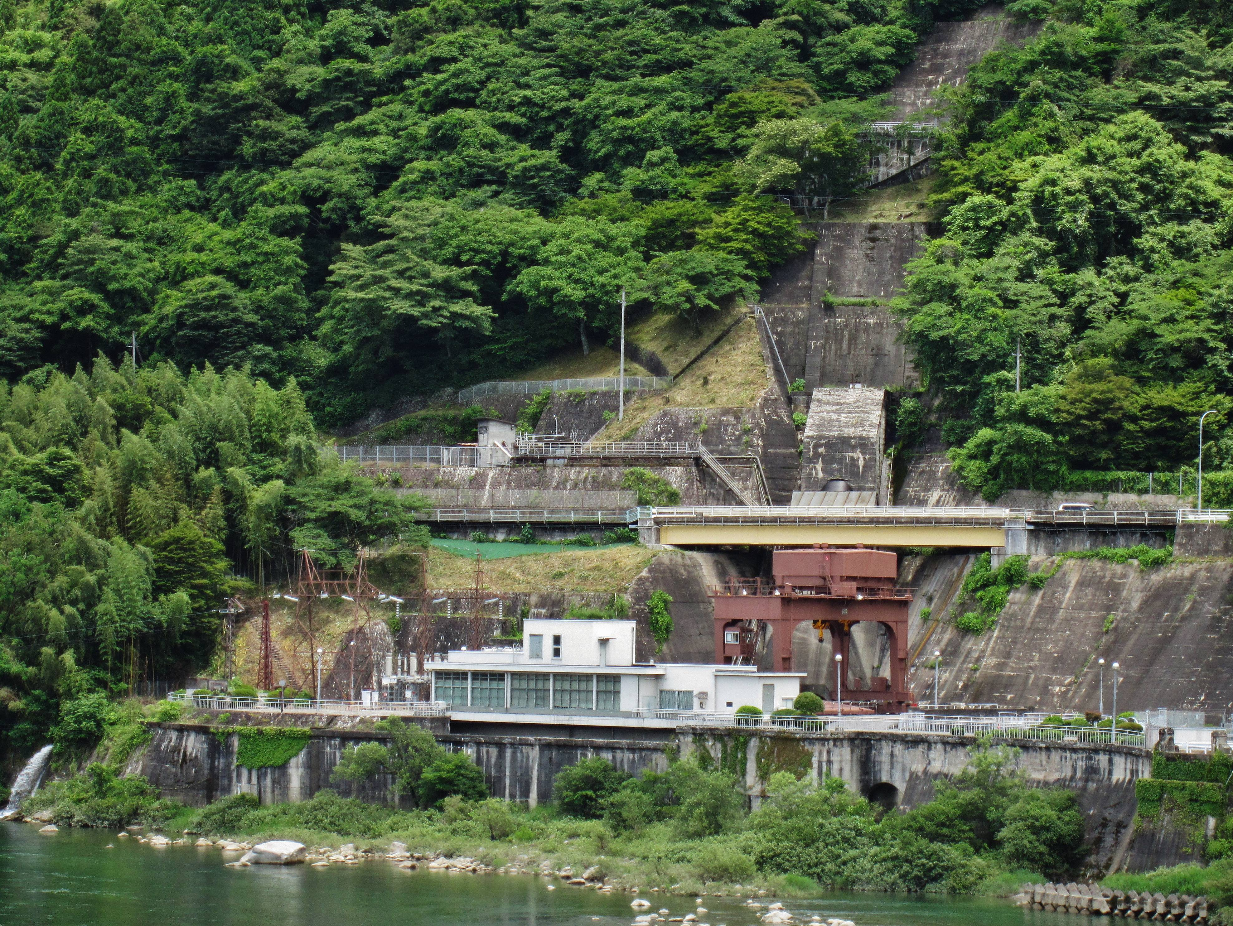 Yamaguchi power station.